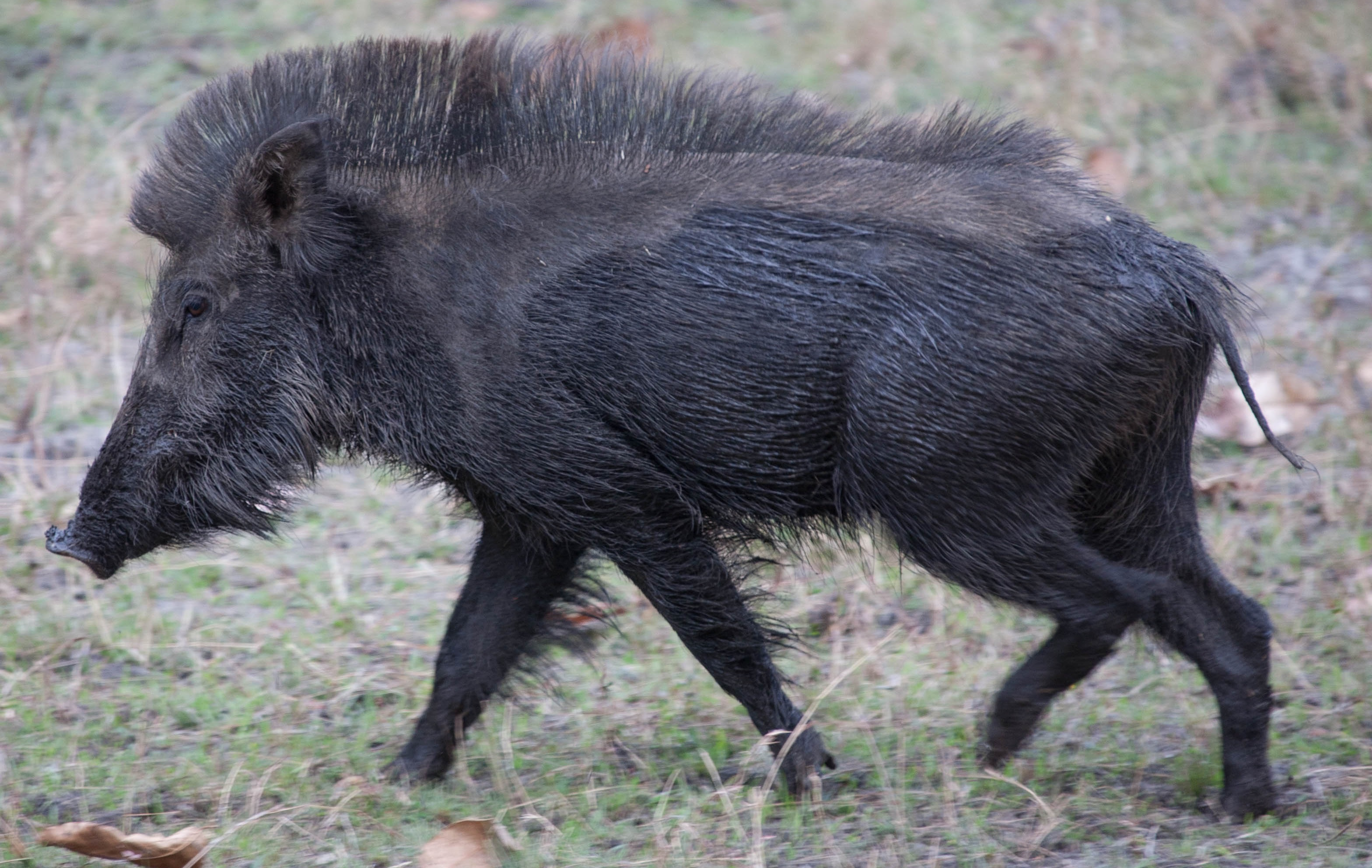 An Indian boar in Bandhavgarh National Park, India.